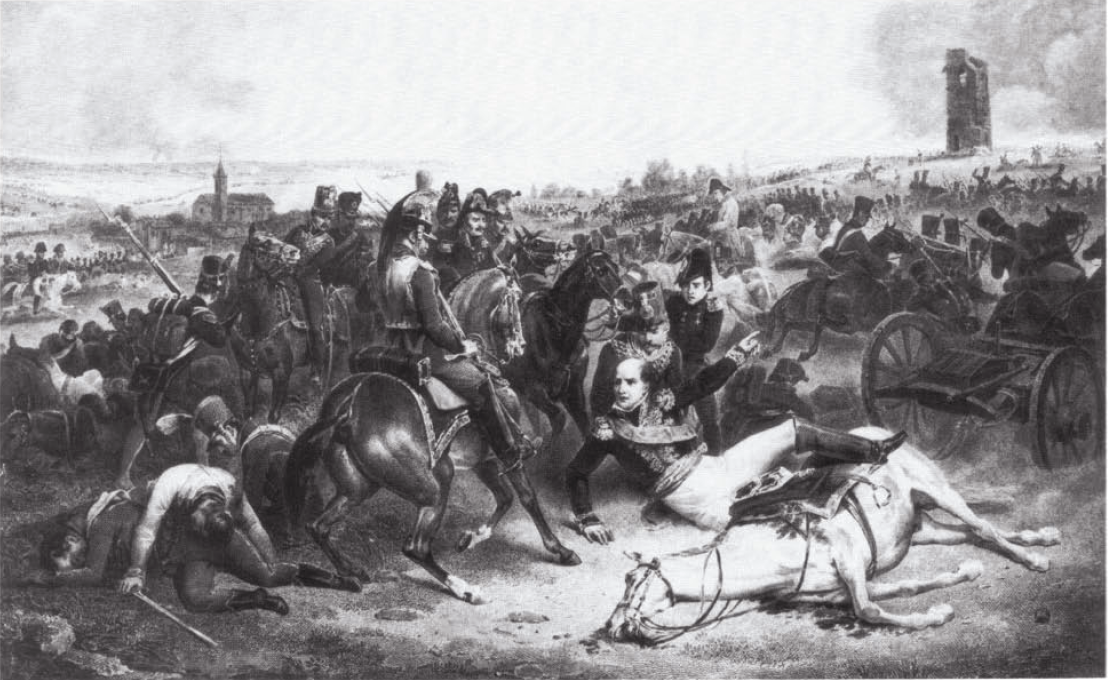 Leading his III Corps from the front, Davout has his horse shot under him. He orders his men to continue the assault on Markgrafneusiedl, visible due to its tower in the background. Part of Anne S. K. Brown Collection.